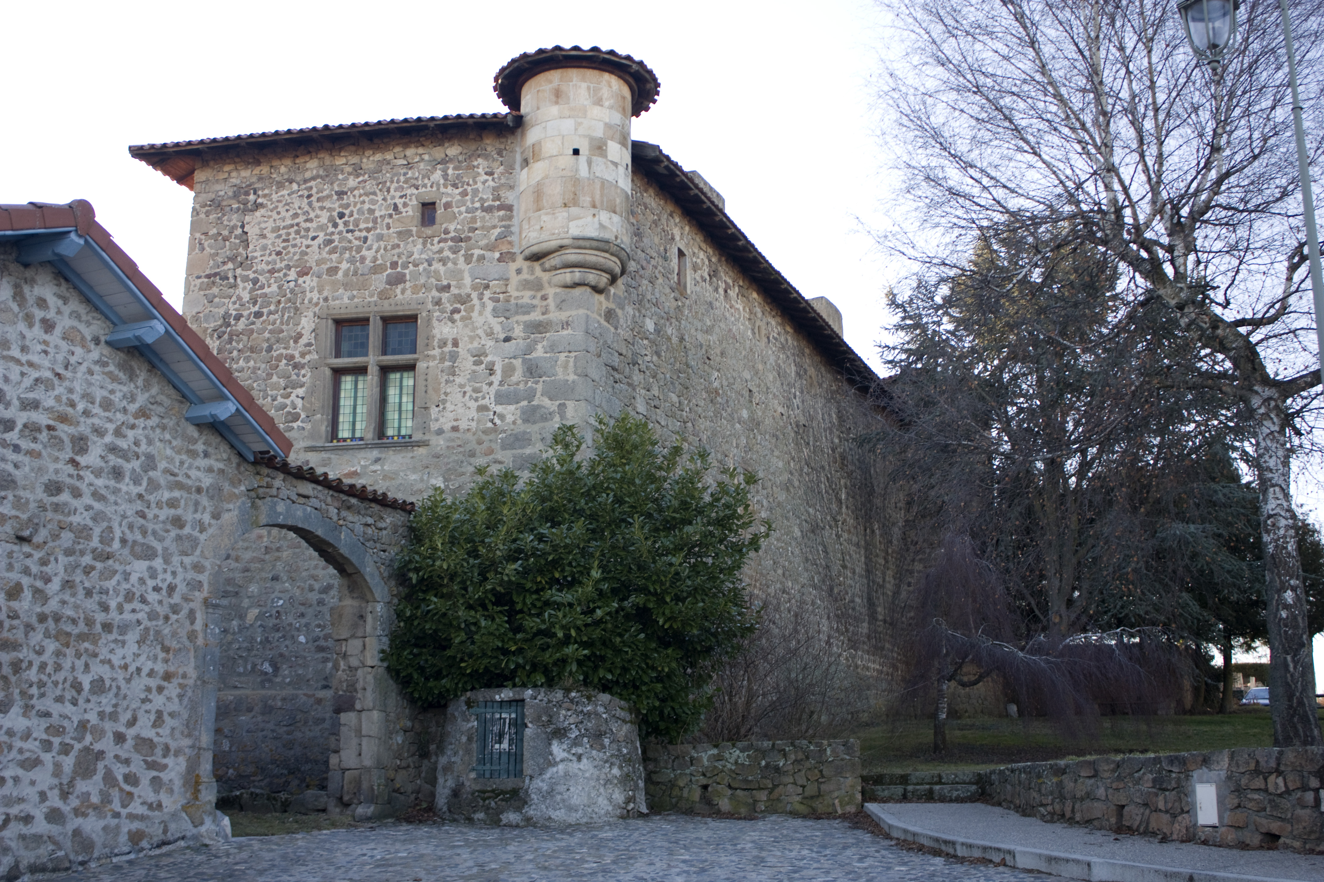 Castle of Valprivas: Notrh Face, Carl de Nys place.